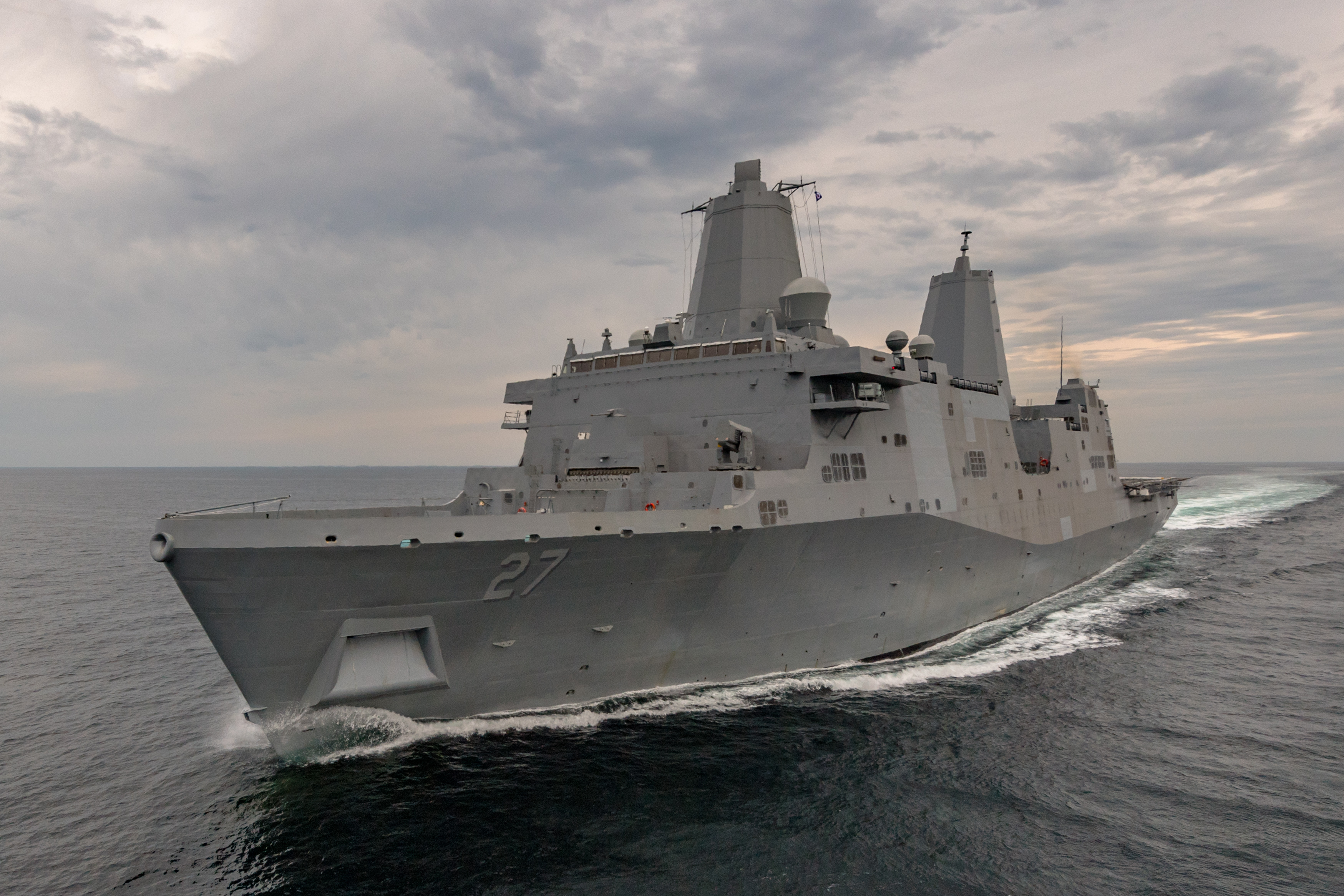 GULF OF MEXICO (July 3, 2017) The amphibious transport dock ship USS Portland (LPD 27) has conducts its first set of sea trials in the Gulf of Mexico. Ingalls’ test and trials team spent four days operating the 11th San Antonio-class ship and demonstrating its systems. (U.S. Navy photo by Lance Davis/Released)170703-N-N0101-001 Join the conversation: navylive.dodlive.mil